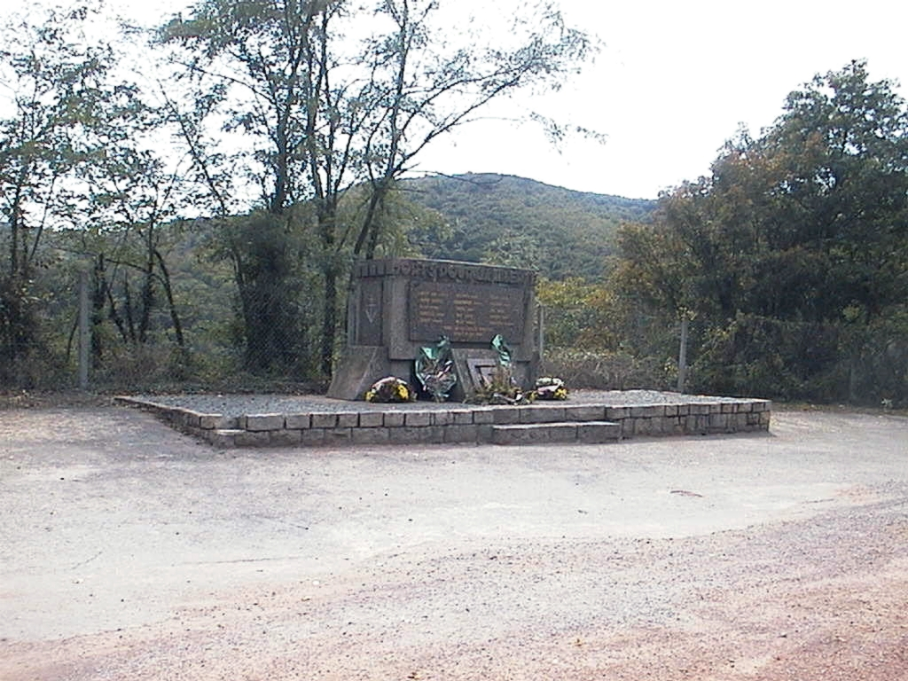 Monument aux morts du maquis